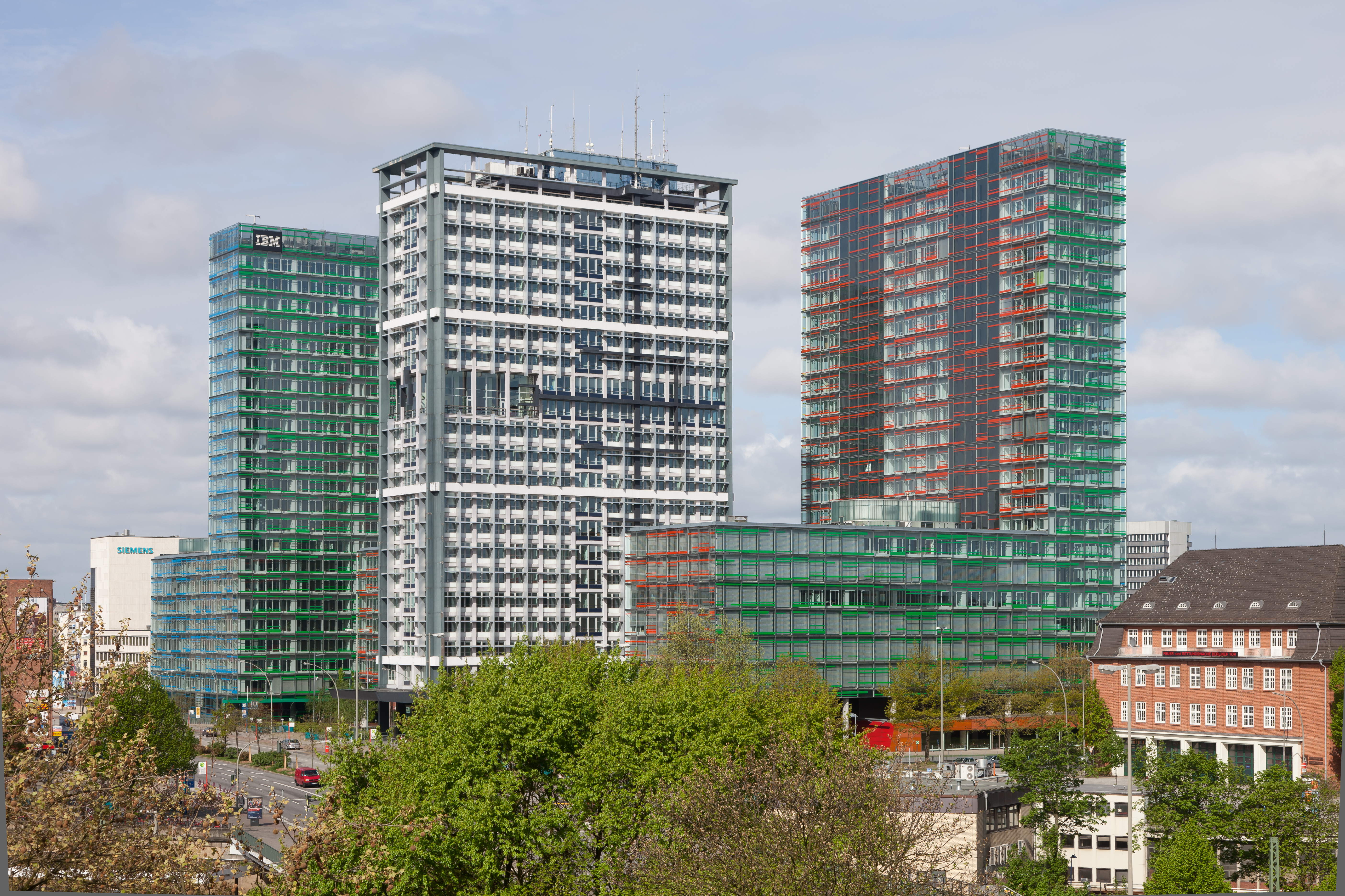 Berliner Tor Center in Hamburg, Germany